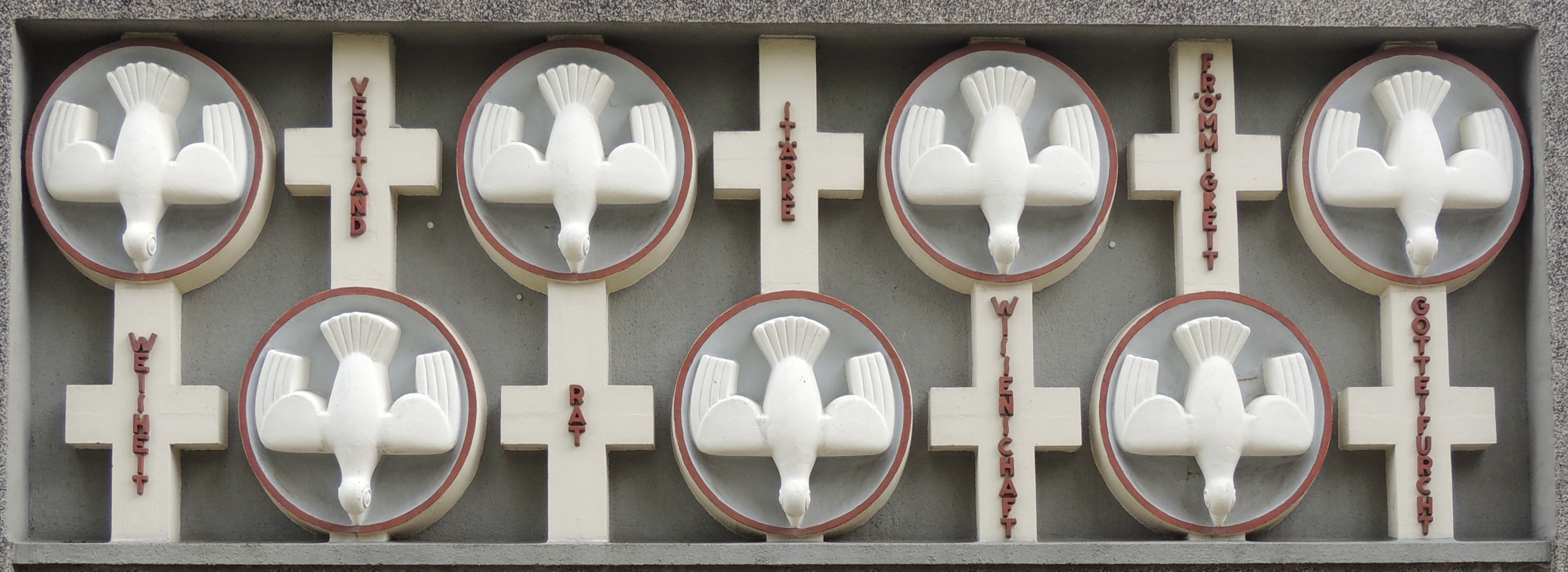 Relief with the 7 gifts of the Holy Spirit by Arnold Hensler at the south entrance of the Heilig-Geist-Kirche in Frankfurt am Main-Riederwald